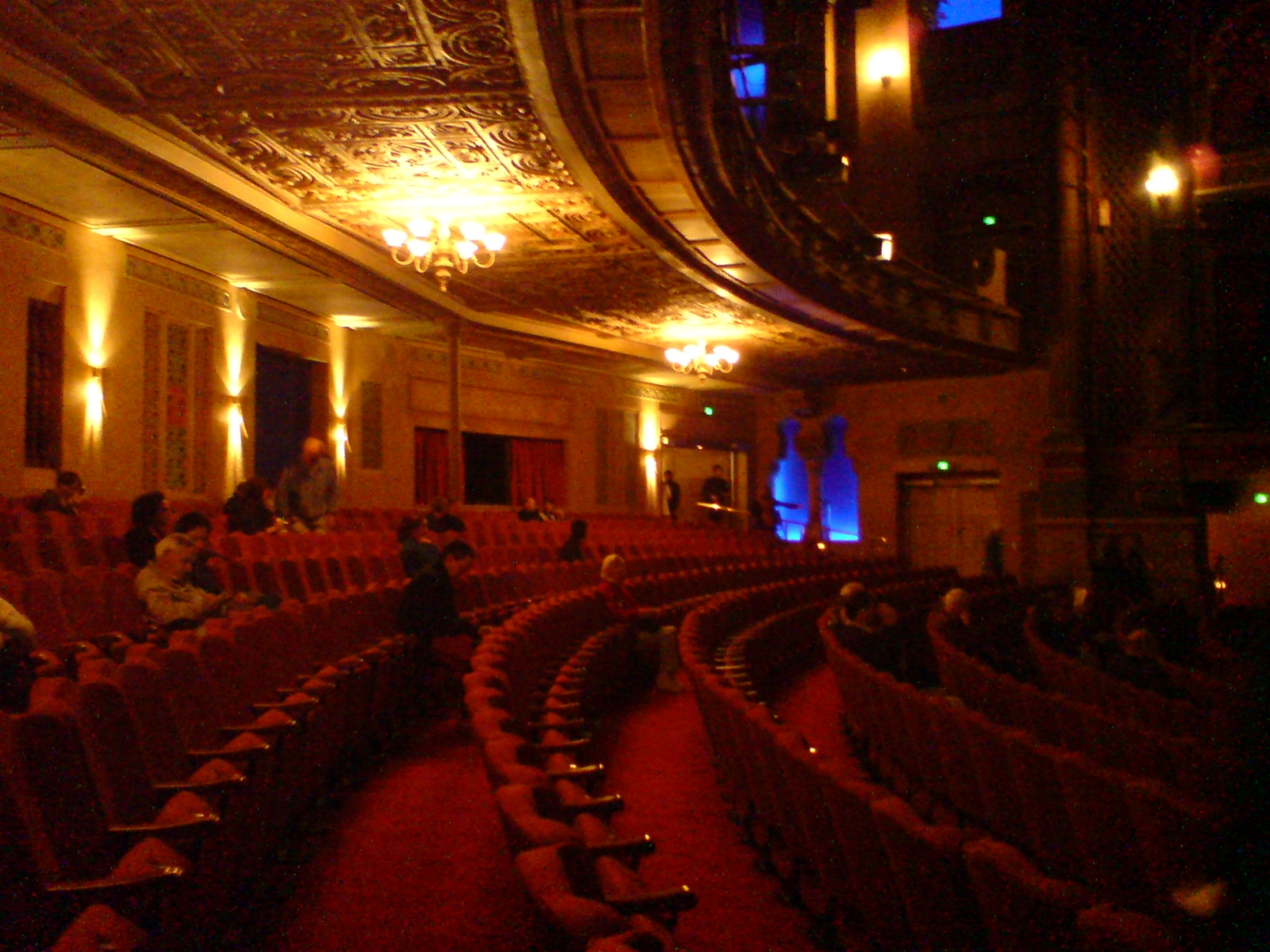 The main seating of the Civic Theatre in the Auckland CBD, New Zealand. One of the few atmospheric theatres left in the world.